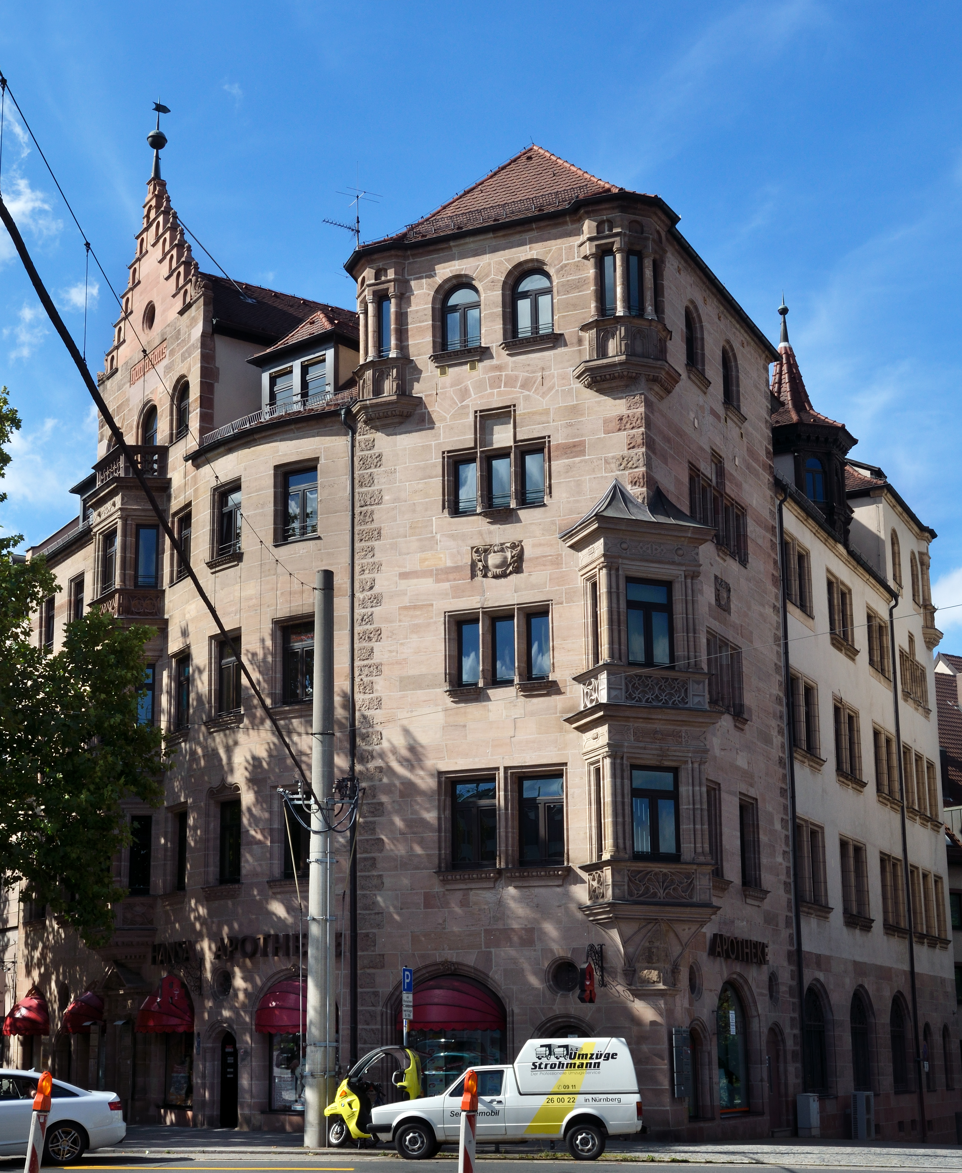 "Hansa-Haus" in Nuremberg, Germany.